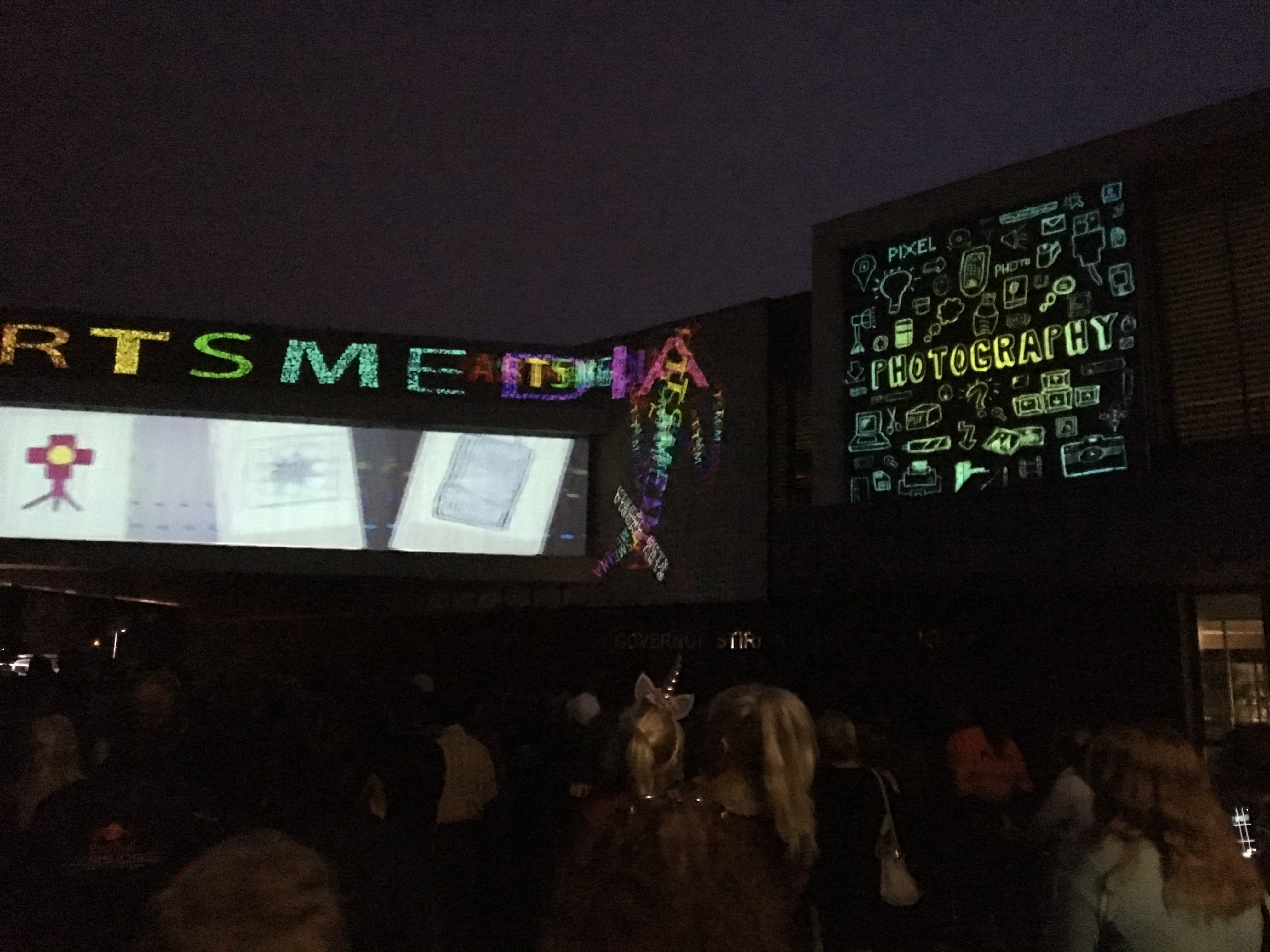 An artwork from the Governor Stirling 2017 Art and Artsmedia showcase. This artwork was a projection onto the Administration building.